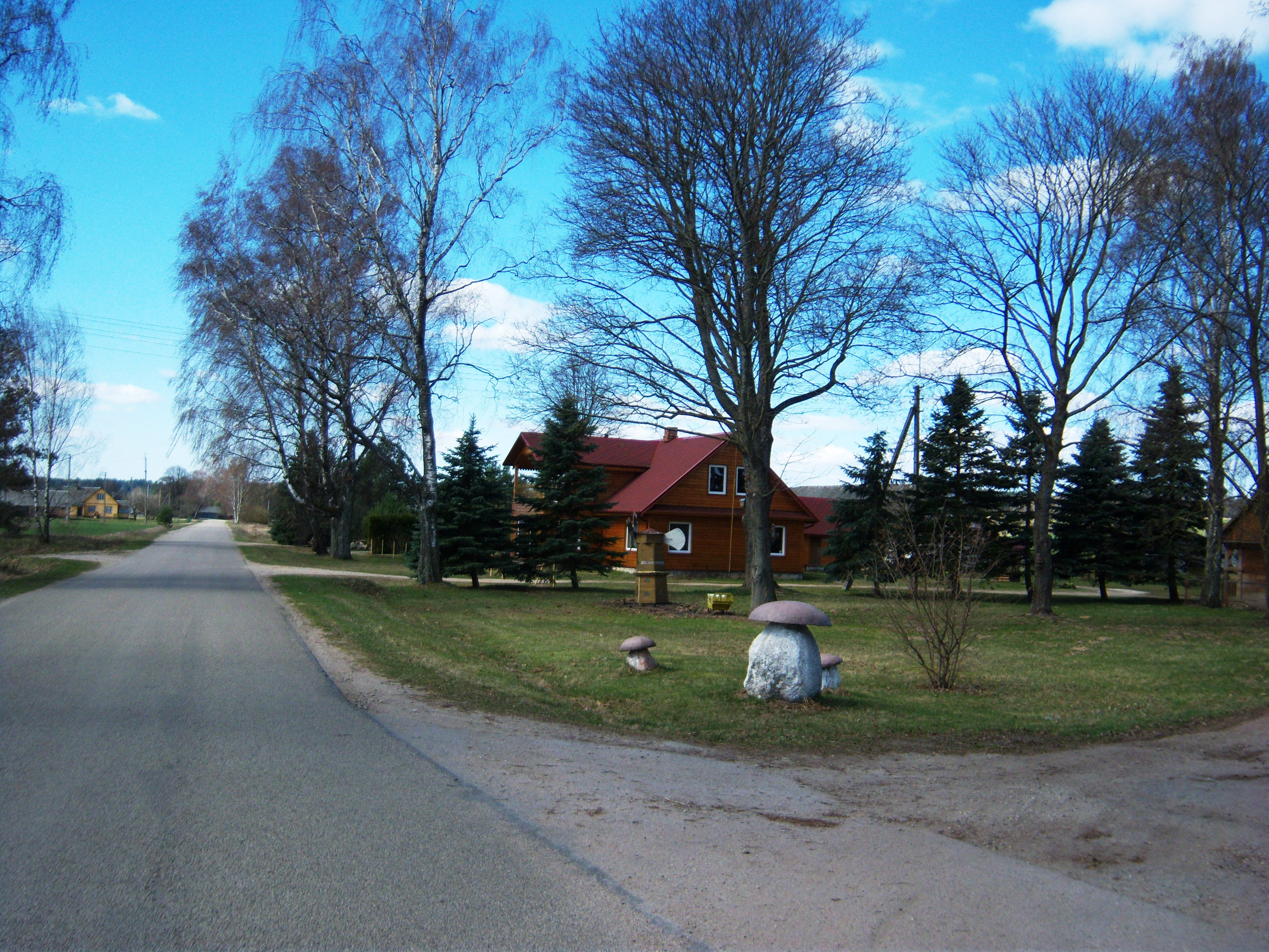 Nemajūnai, Birštonas municipality, Lithuania